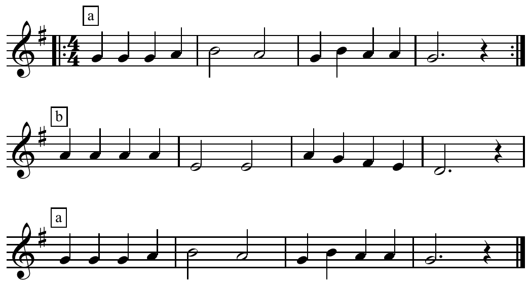 "Au clair de la lune", repetition after digression. Created by Hyacinth (talk) 22:56, 10 May 2011 (UTC) using Sibelius 5.